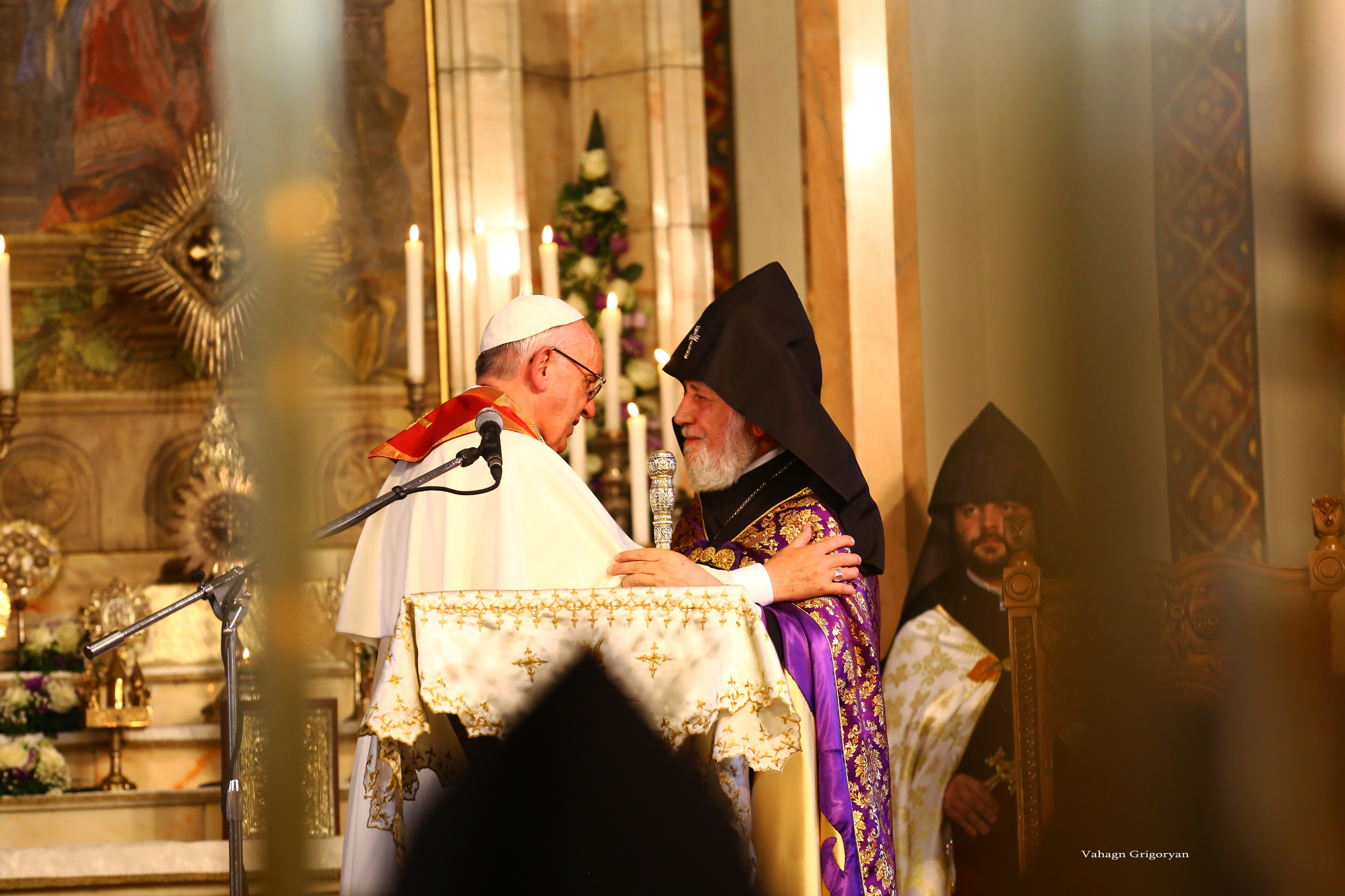 Pope Francis with Garegin II